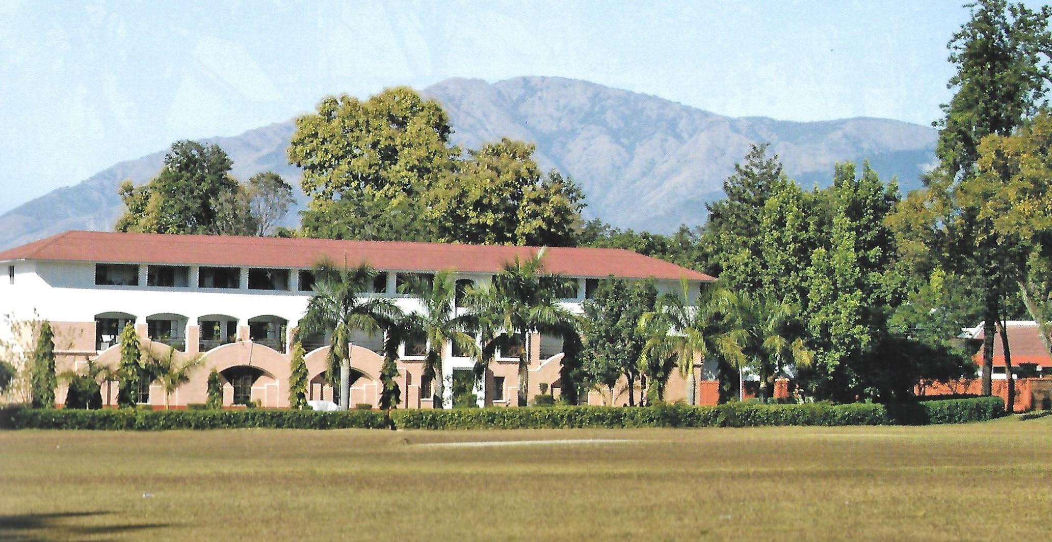 Oberoi House at The Doon School, with Shivalik Hills in the background